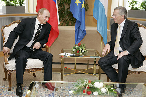 LUXEMBOURG. Conversation with Prime Minister of Luxembourg Jean-Claude Juncker.